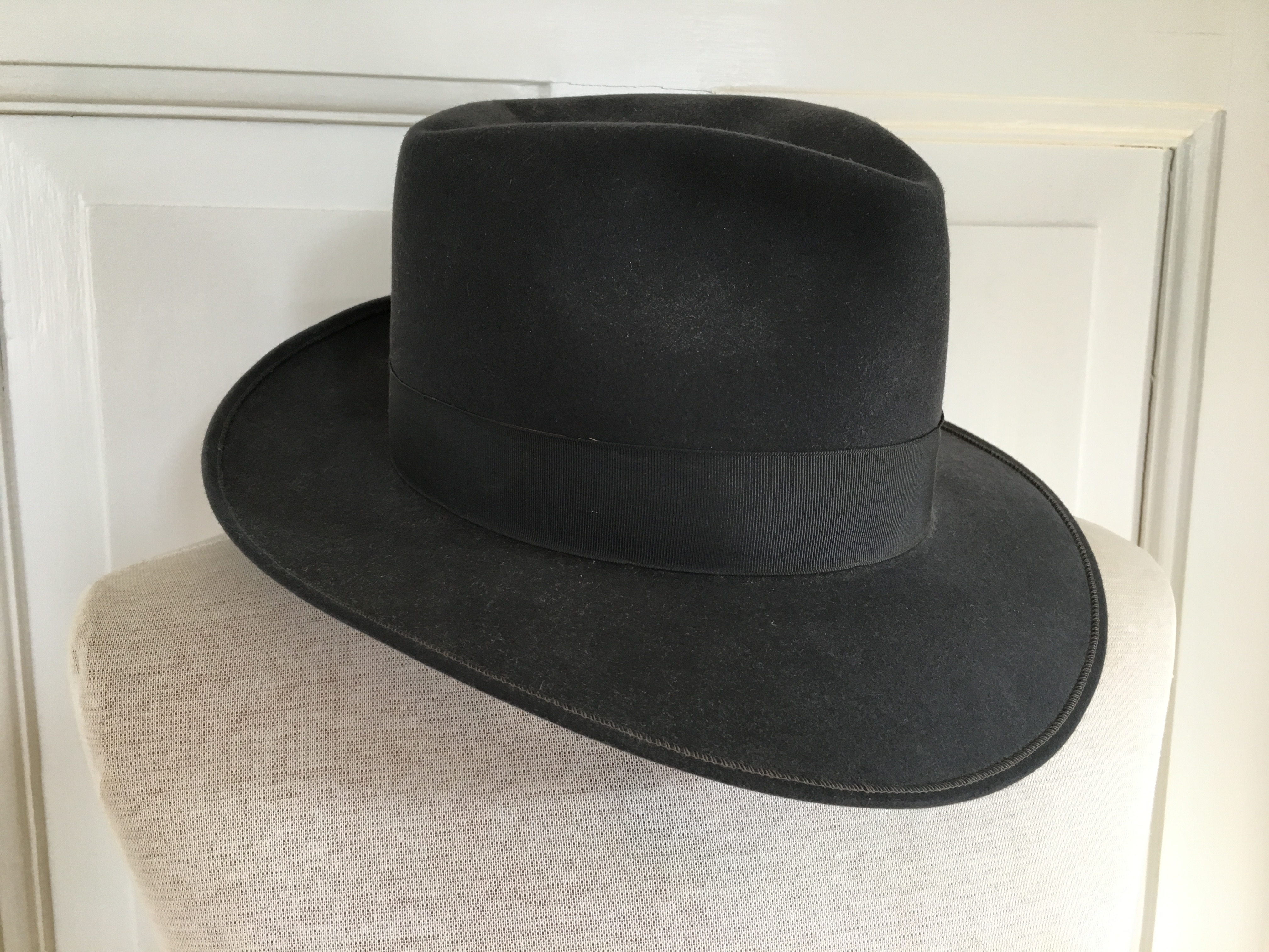 Fedora hat from the French hat maker Mossant, founded in 1833.